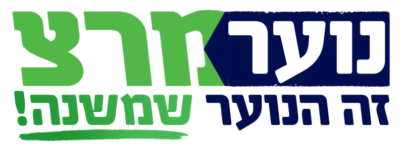 The logo is used by Meretz Youth, designed by its member Yuval Margalit.